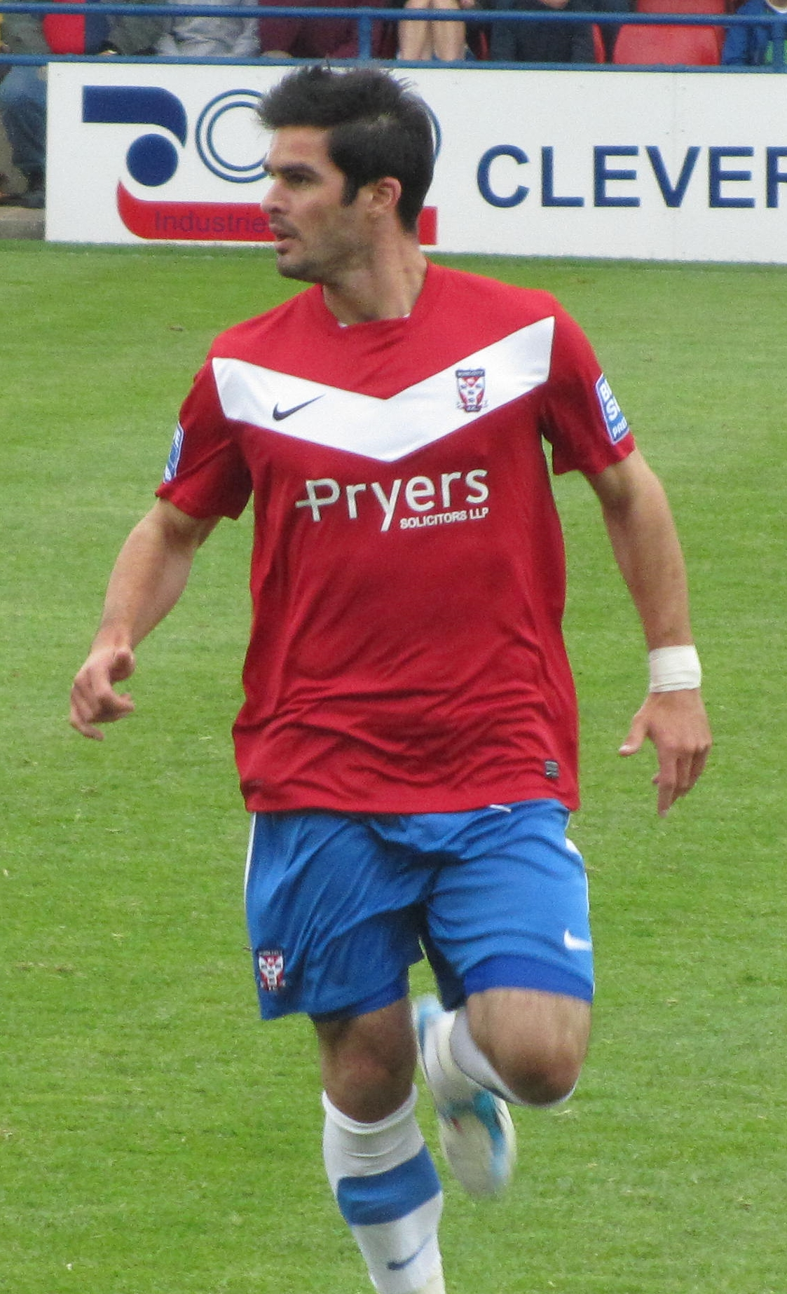 Jon Challinor playing for York City against Alfreton Town at Bootham Crescent, York on 29 August 2011